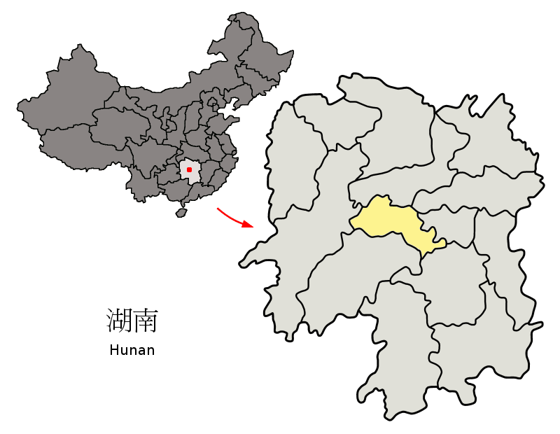 Location of Loudi Prefecture (yellow) within Hunan Province of China Map drawn in december 2007 using various sources, mainly : Hunan Province administrative regions GIS data: 1:1M, County level, 1990 Hunan Counties map from